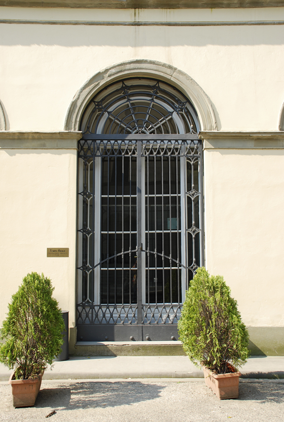 Il Boschetto or Villa Strozzi Park, Florence, Italy. Villa Strozzi Building. South Facade. A French Window.